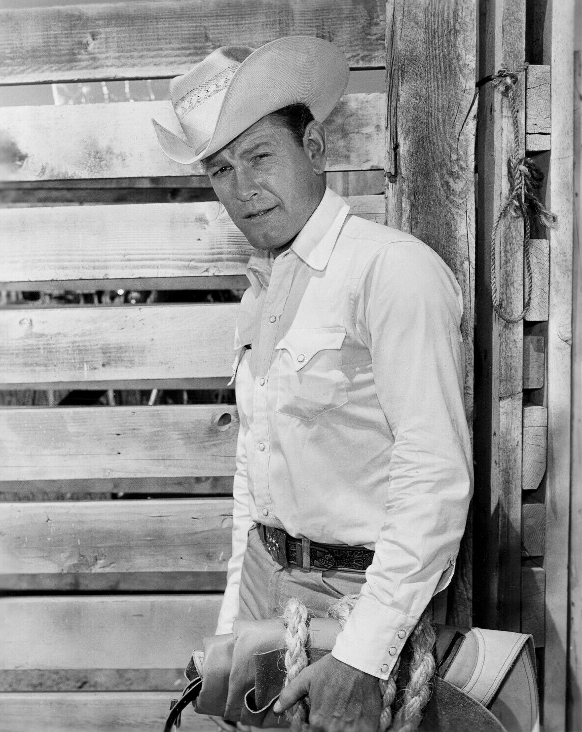 Publicity photo of The Wide Country.